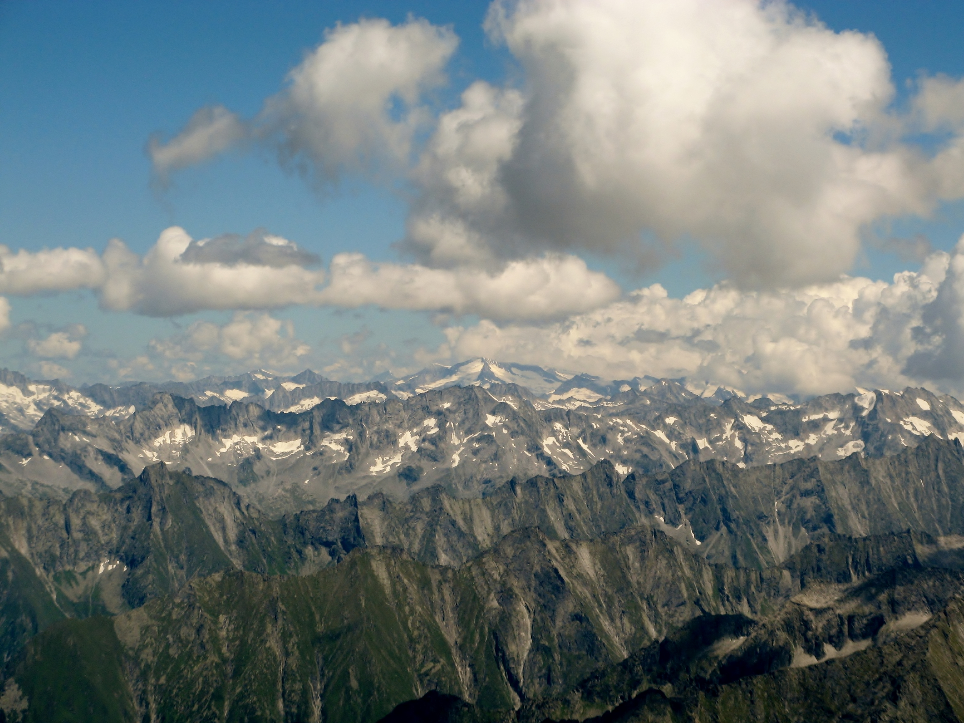 Zillertal Alpen/SchlegEis